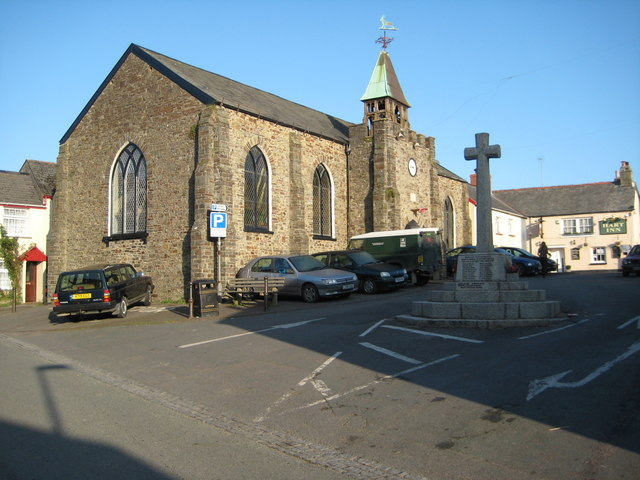 St John's chapel, Hartland, Devon, seen from the southeast, with parish war memorial on the right